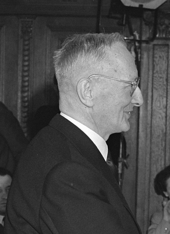 Dutch writer Ferdinand Bordewijk in 1954